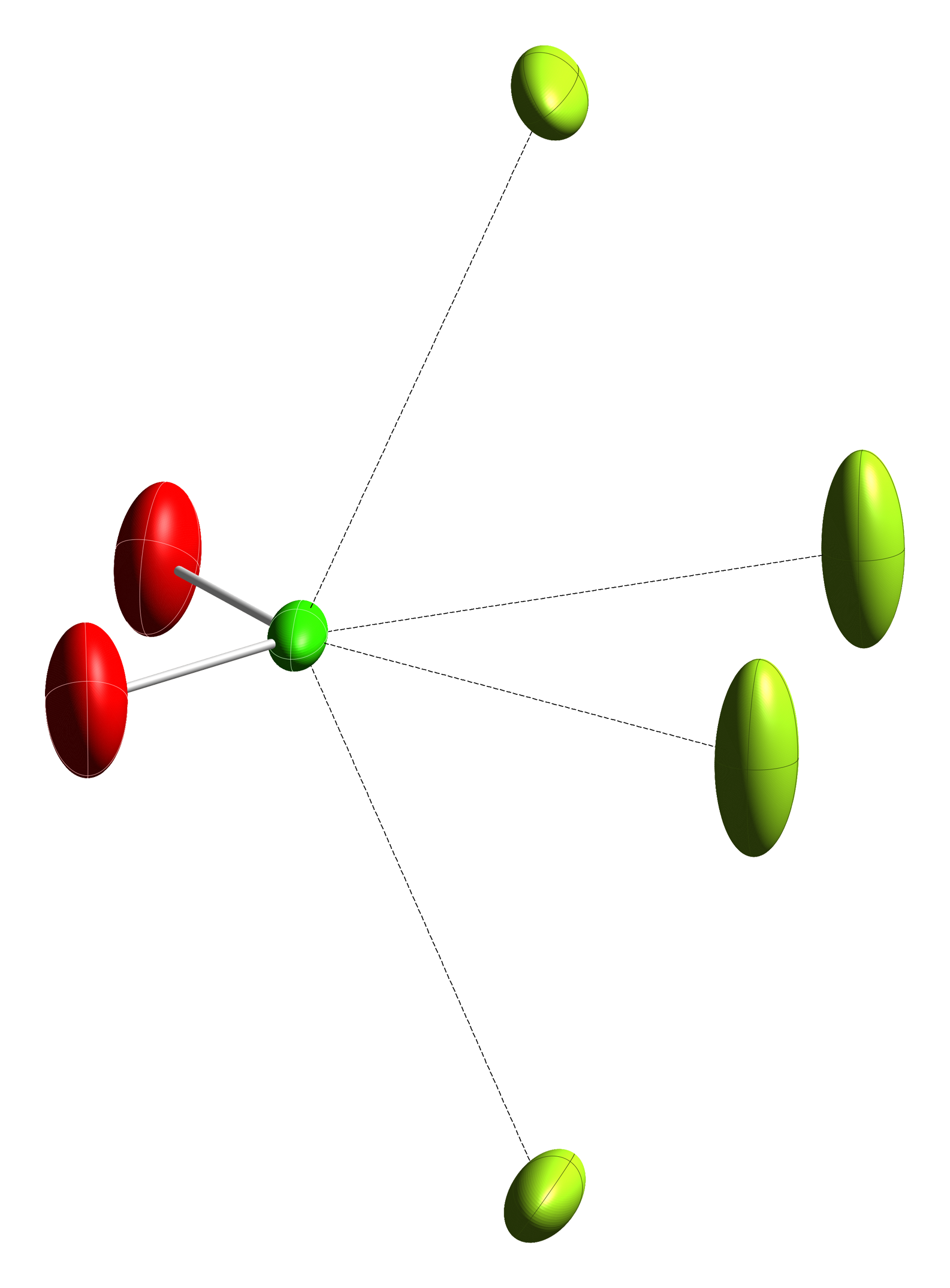 Thermal ellipsoid model of the coordination environment of chlorine in the crystal structure of chloryl hexafluoroantimonate, [ClO2][SbF6]. Colour code: Chlorine, Cl: green Oxygen, O: red Fluorine, F: yellow-green Crystal structure from Inorg. Chem. (2008) 47, 8343–8356. Image generated in CrystalMaker 8.2.